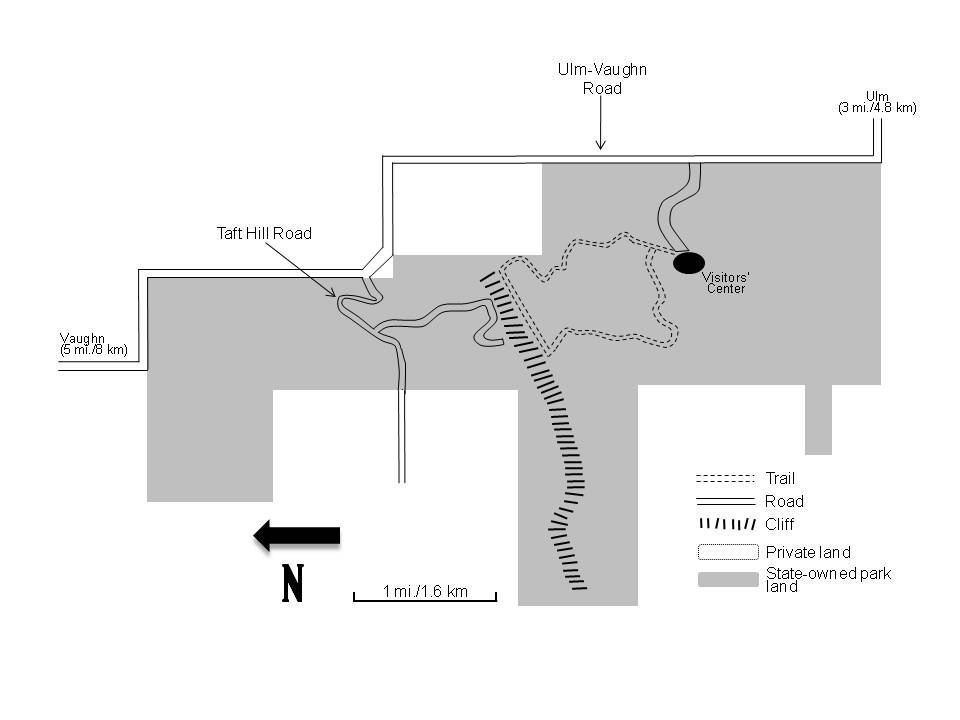 A map of First Peoples Buffalo Jump Sate Park, located in Cascade County, Montana, in the United States. This map depicts the park boundaries and some major points in the park as of May 2011.